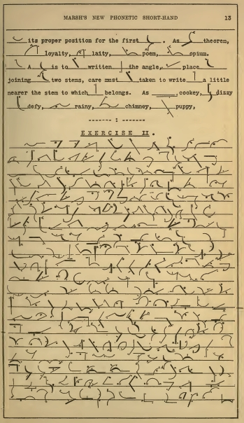 reformed phonetic short-hand, Sample exercise (p. 13, Marsh's New Manual)